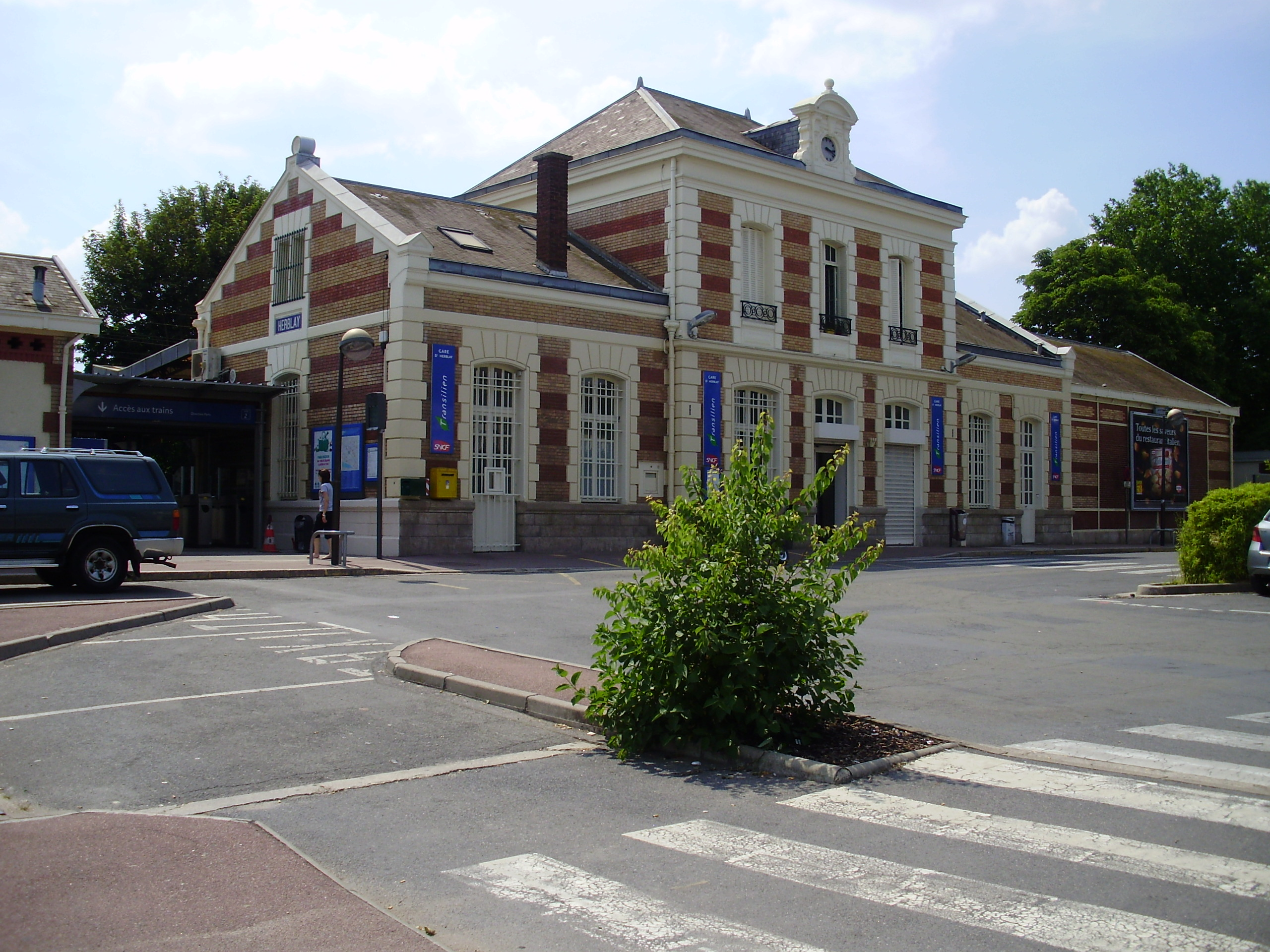 Herblay station, Val-d'Oise, France